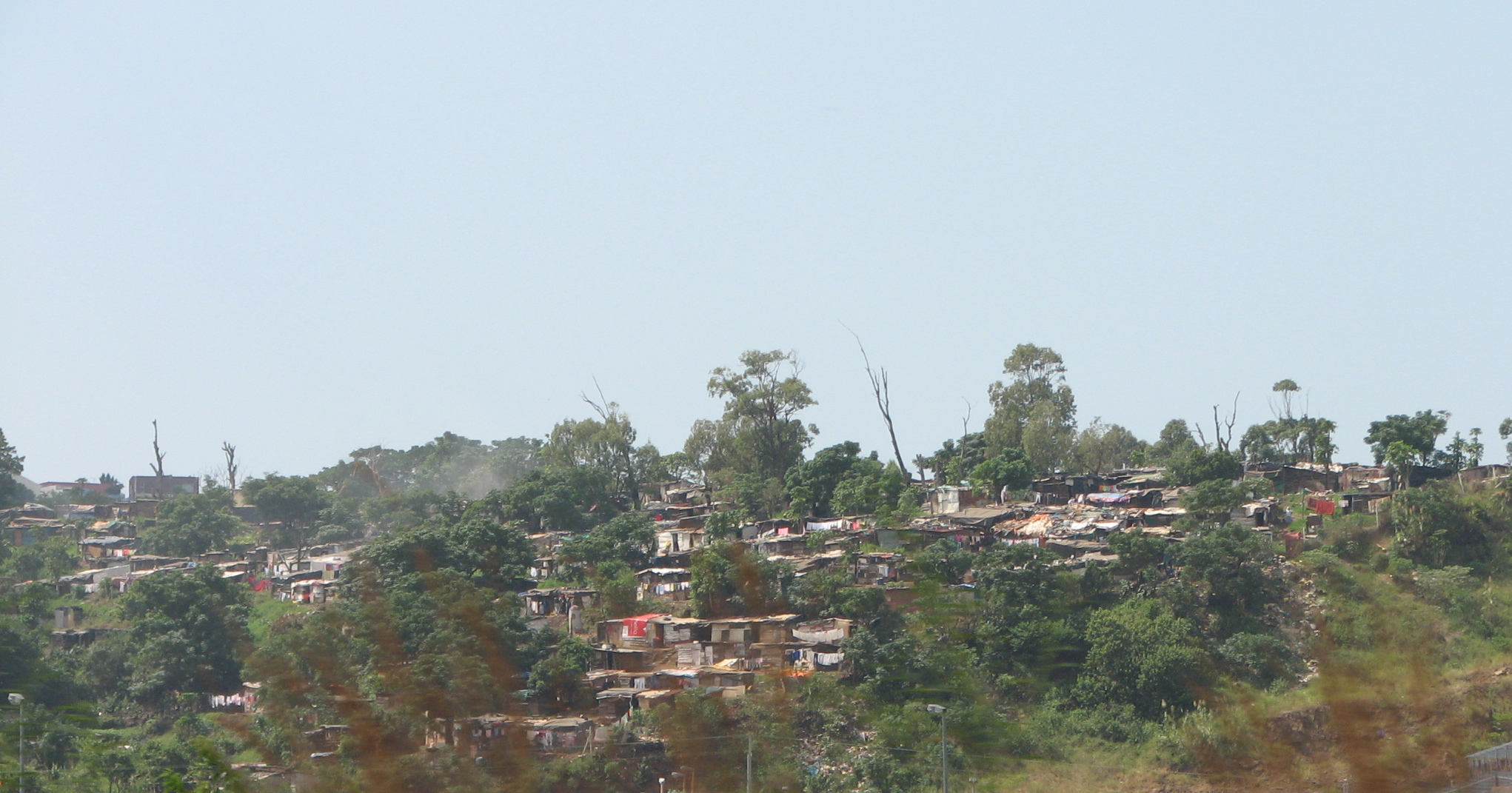 Slums in a Durban township.